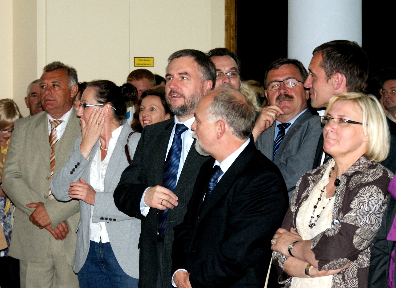 Polish presidential election 2010. Election's Results Night, Poznań. W centrum zdjęcia: Marek Woźniak, marszałek województwa wielkopolskiego (po lewej) i Piotr Florek, wojewoda wielkopolski.